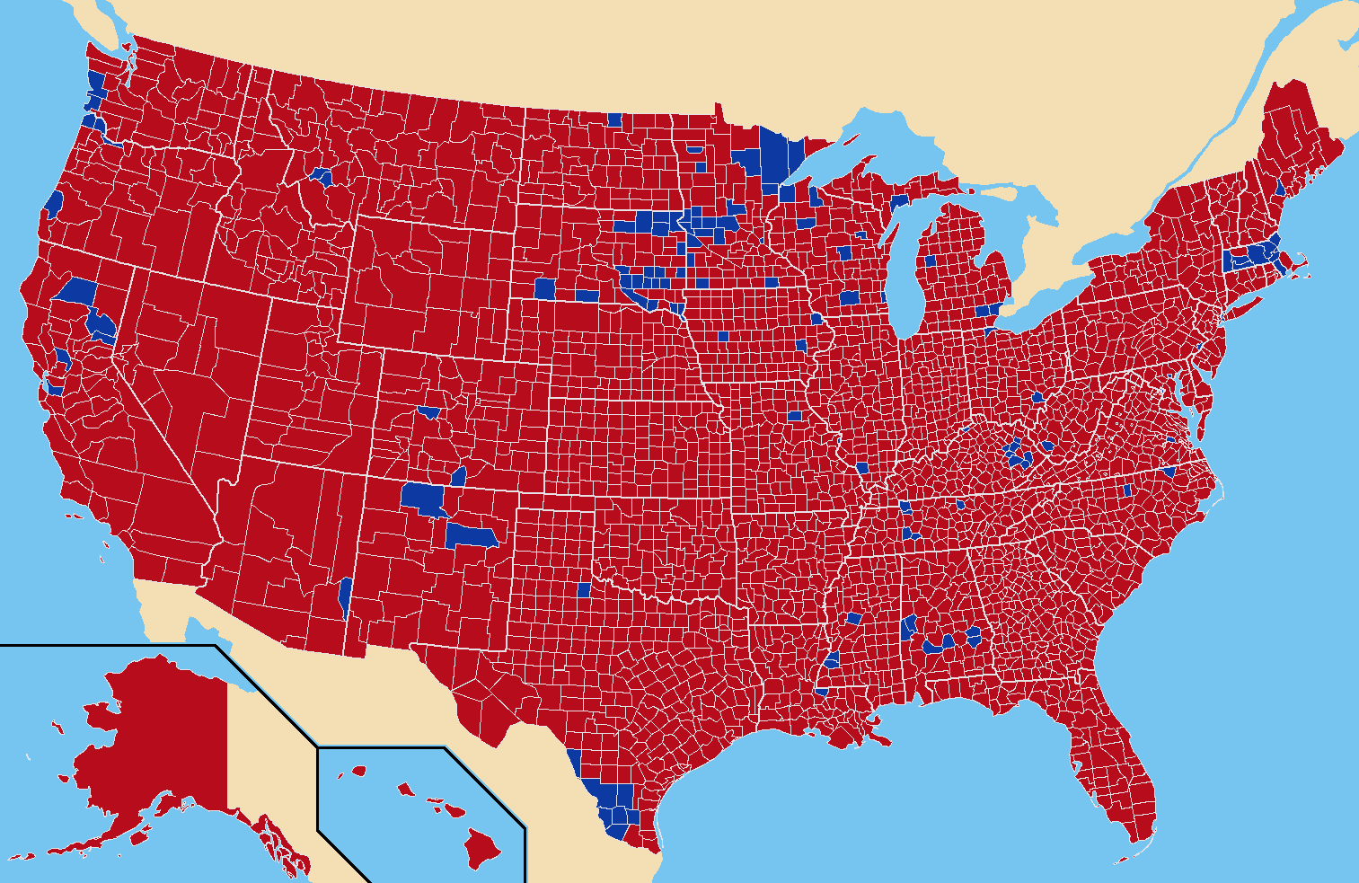 A map of the counties won by each candidate in the 1972 United States presidential election.